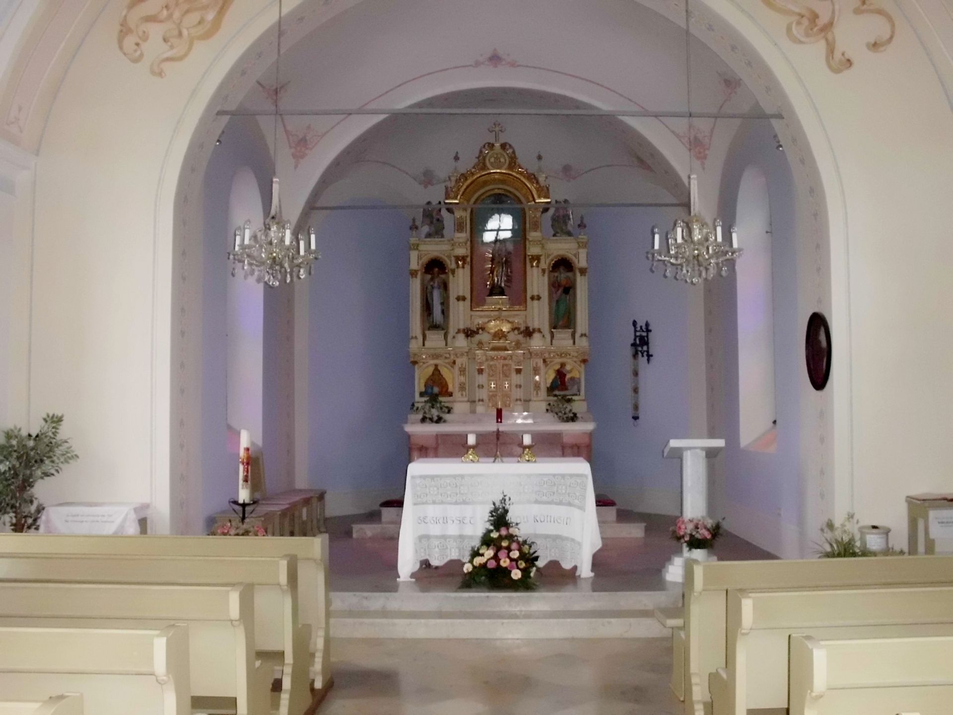 Pilgrimage Church Maria Helfbrunn - View to the altar